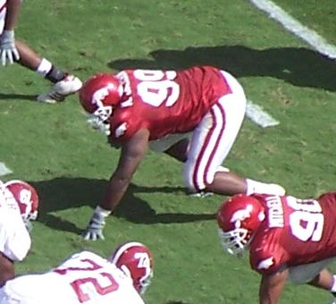 Keith Jackson Jr. playing defensive tackle against Alabama for Arkansas in 2006.